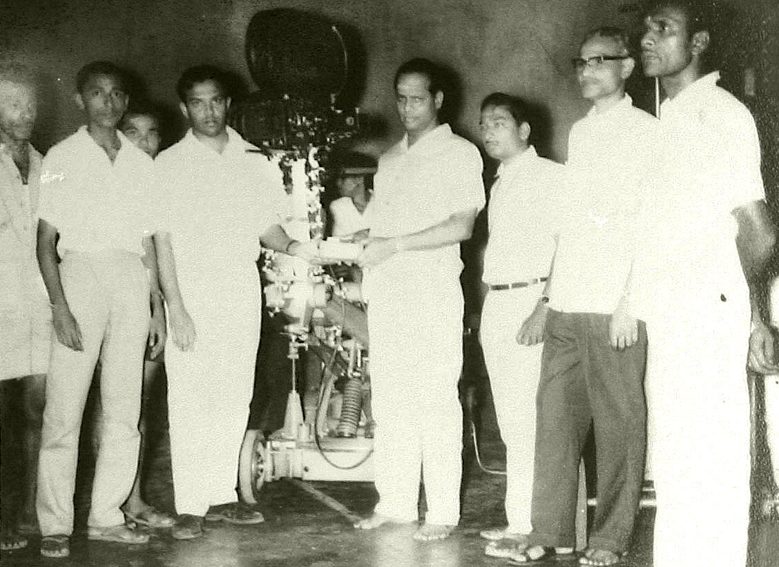 Ataweni Pudumaya Opening (Muhurath) 1968 - Wijaya Studios - Hendala Waththala (Left: Anton Gregory,Andrew Jayamanne,Mr:K.Gunarathnam,V.Vamadevan,Director:M.Mastan,P.K.Pandiyan)